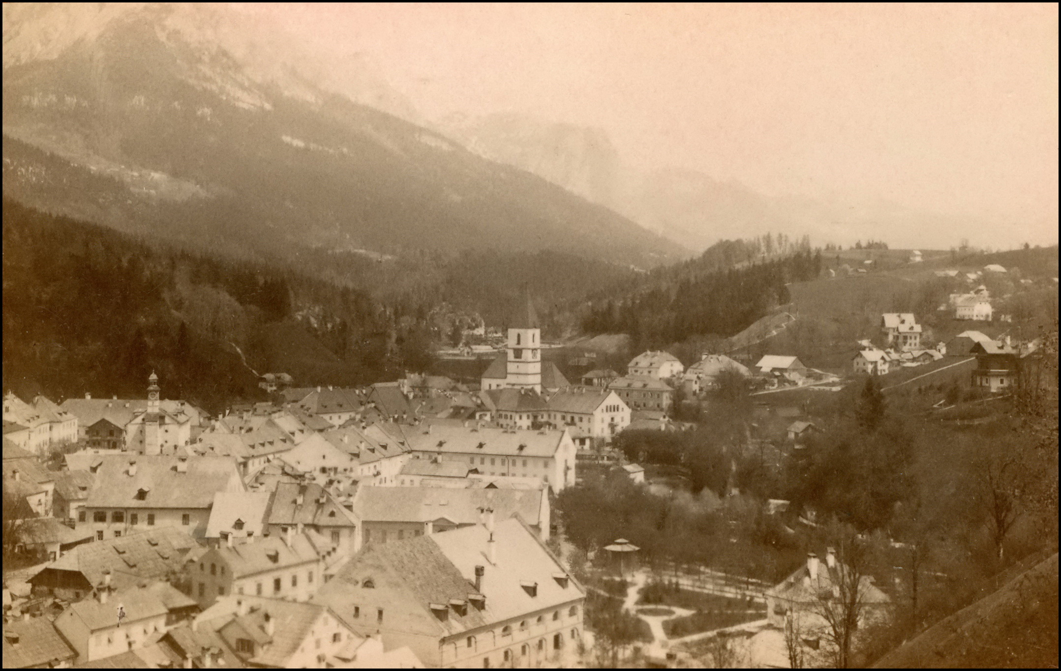 Bad Aussee 1892. First photo.